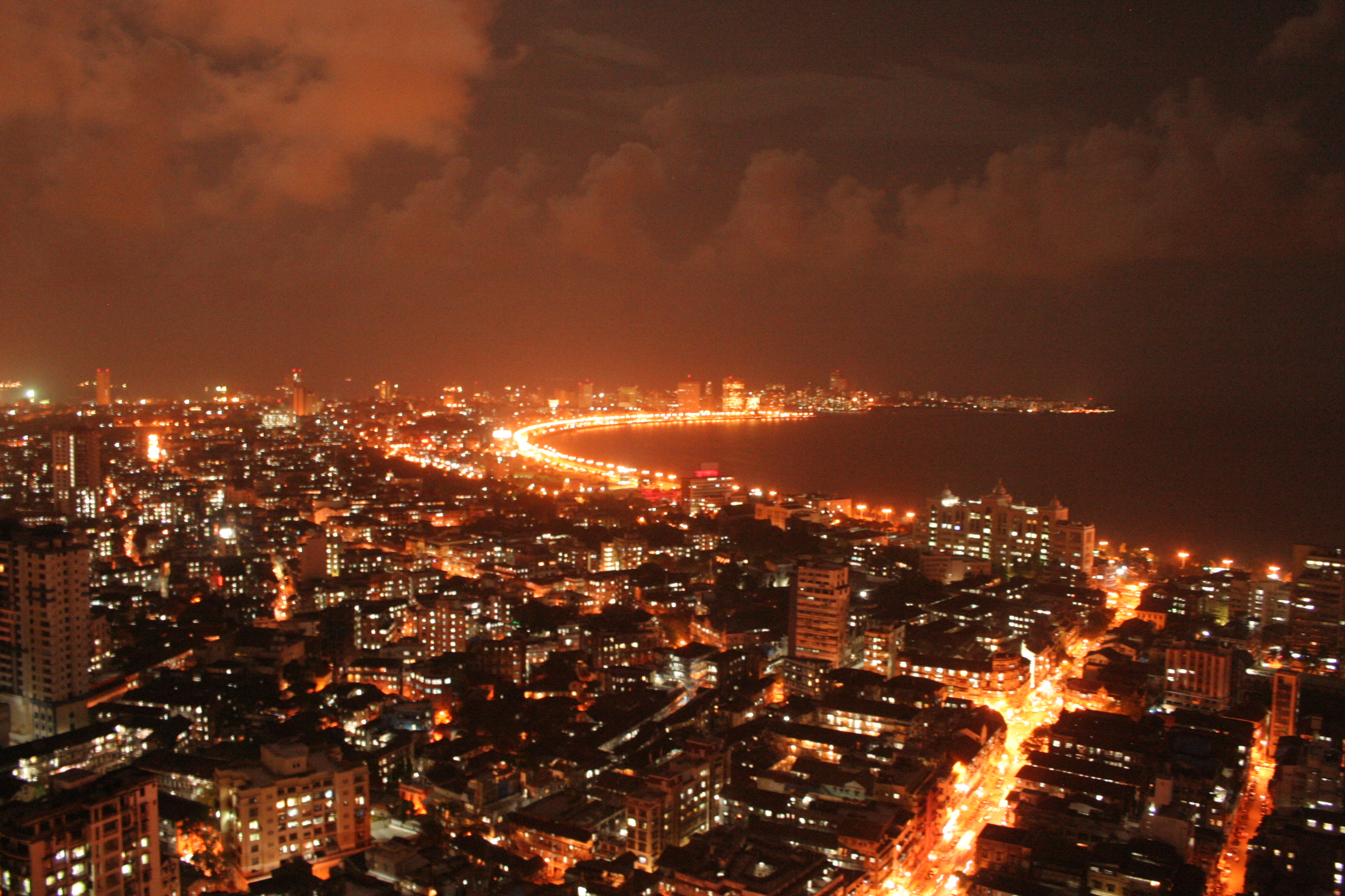 Marine Drive in South Mumbai seen during the night as an arc of light.